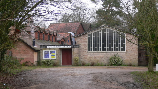 Yately Baptist Church